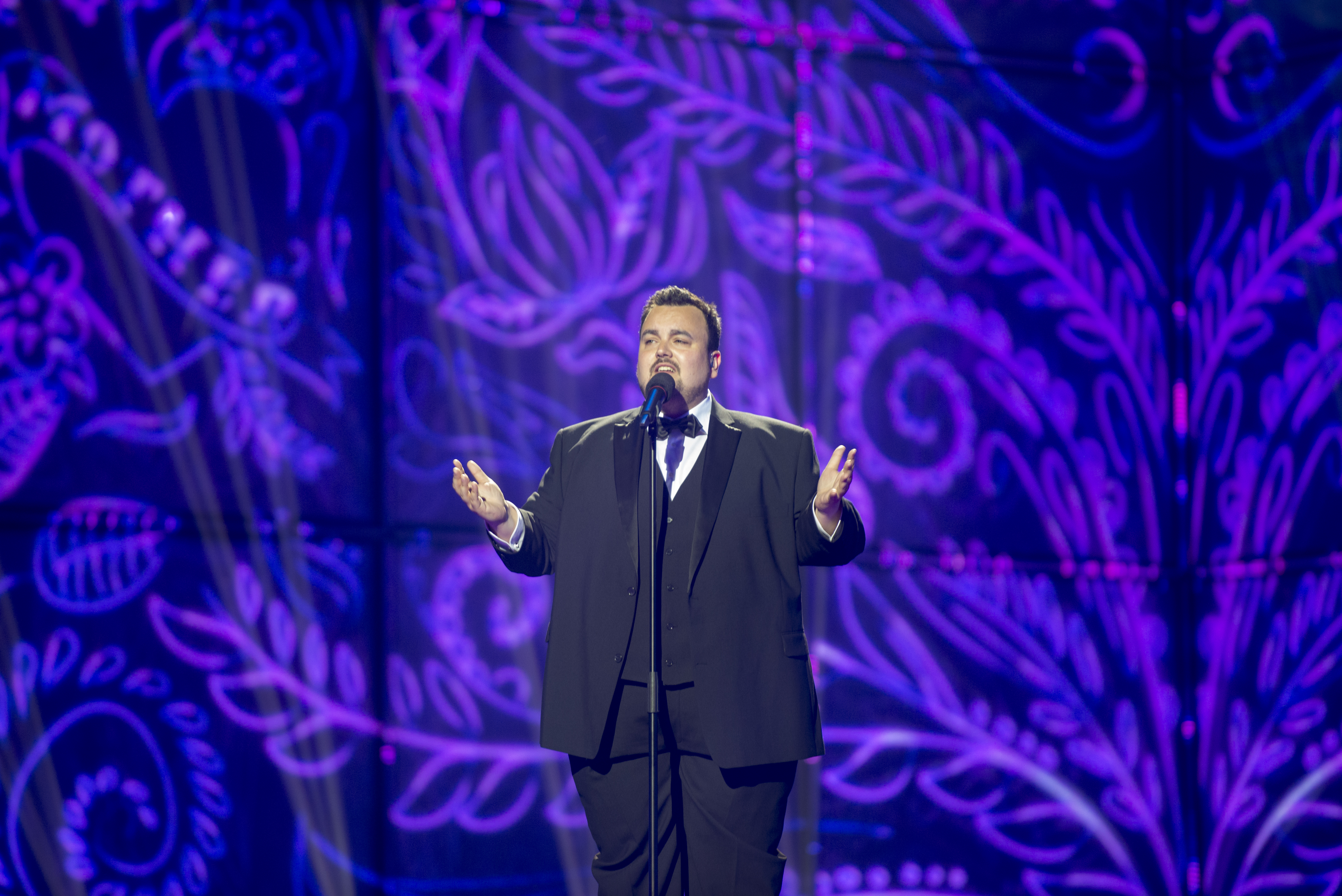 Axel Hirsoux representing Belgium with the song "Mother" during the first dress rehearsal of the first semi final of the Eurovision Song Contest 2014 Copenhagen. (Help translate this text)